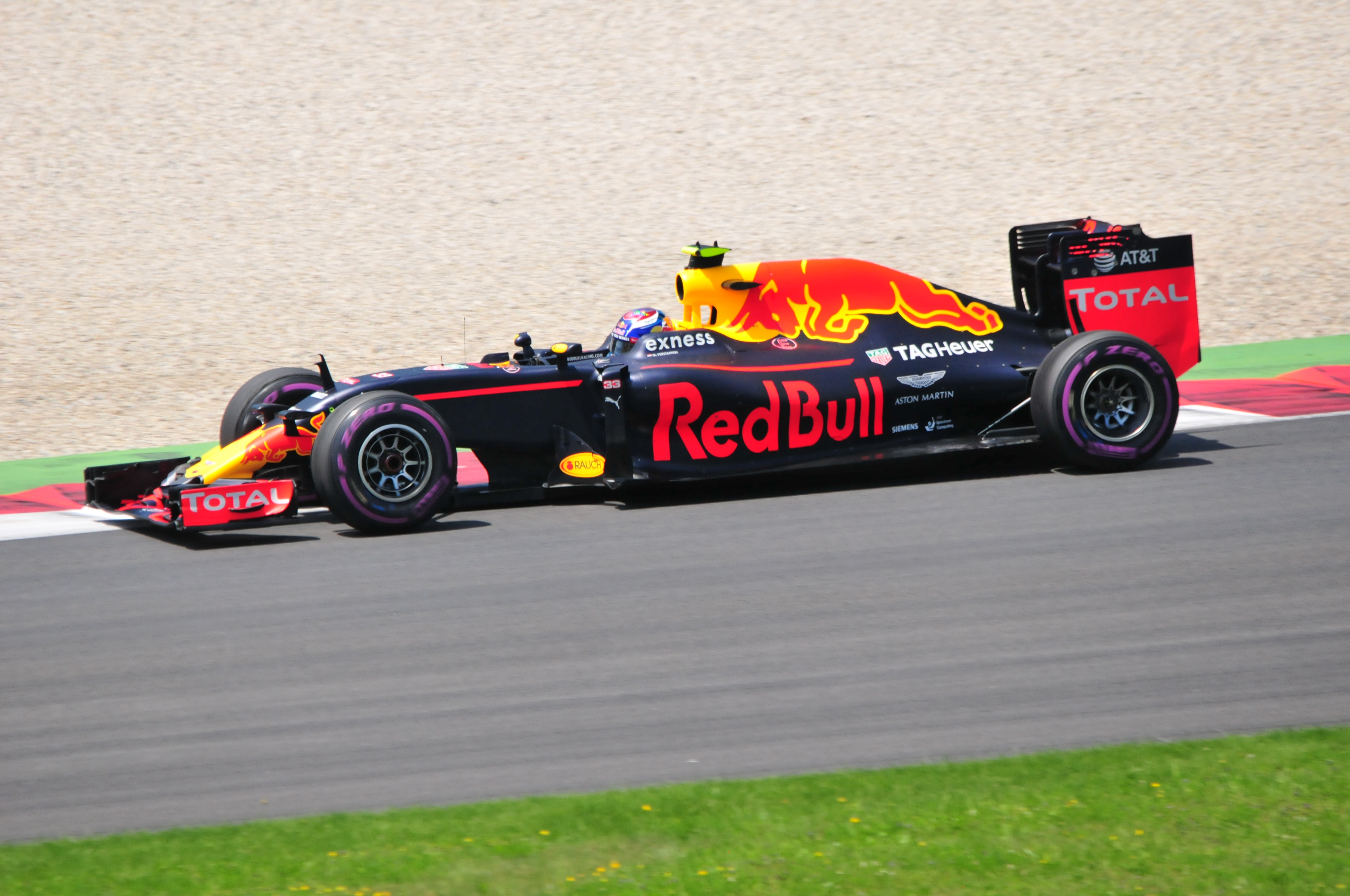 Max Verstappen at the 2016 Austrian Grand Prix